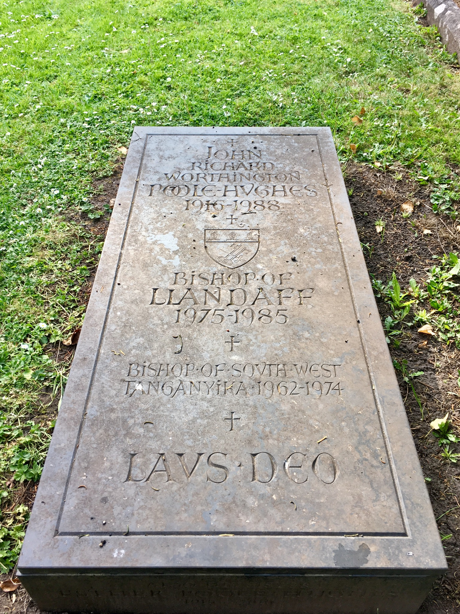 Graves in Llandaff churchyard, May 2020